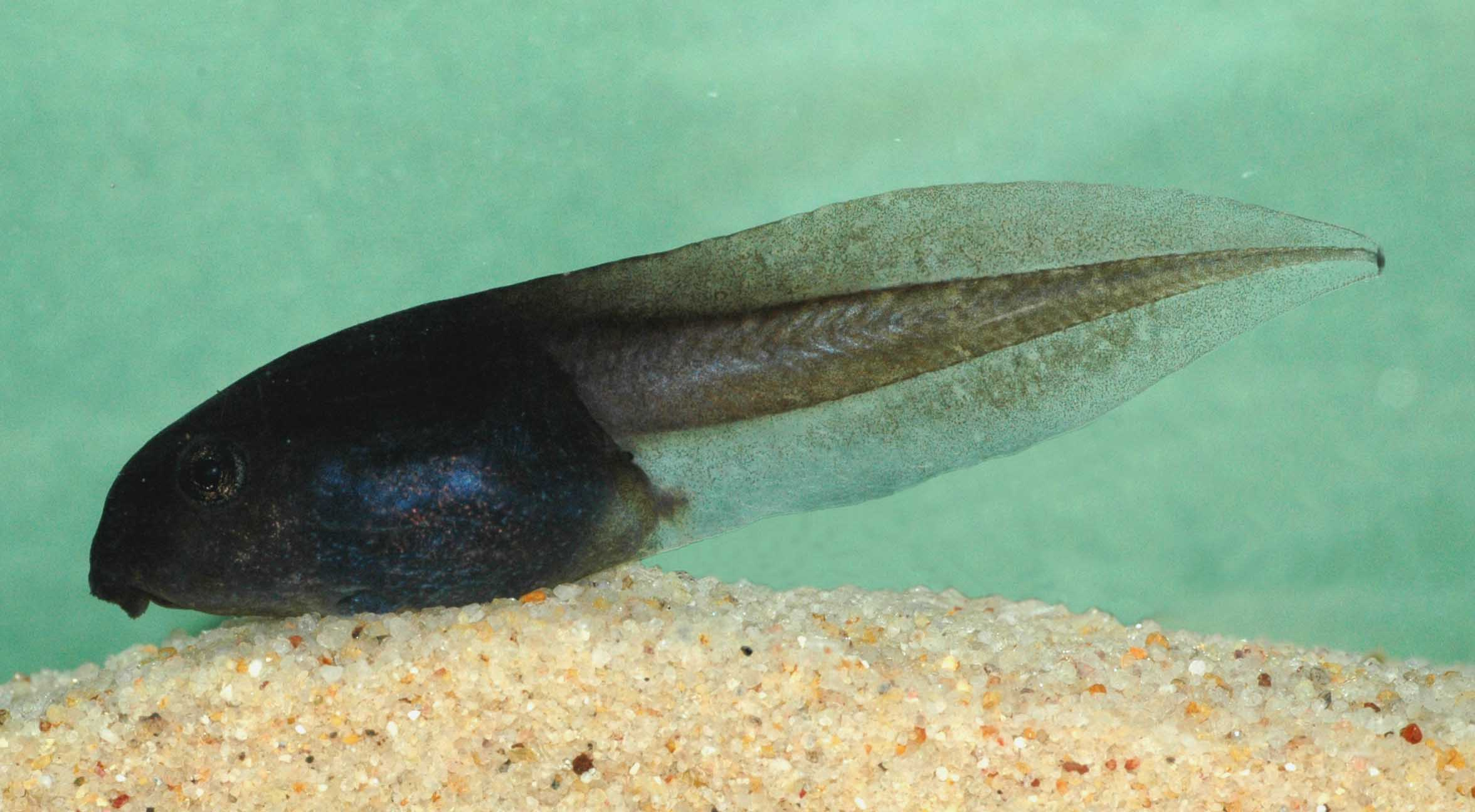 Littlejohn's Tree Frog (Litoria littlejohni) tadpole.